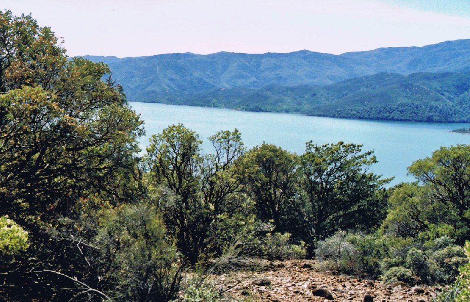 Photo of Indian Valley Reservoir looking to the west.